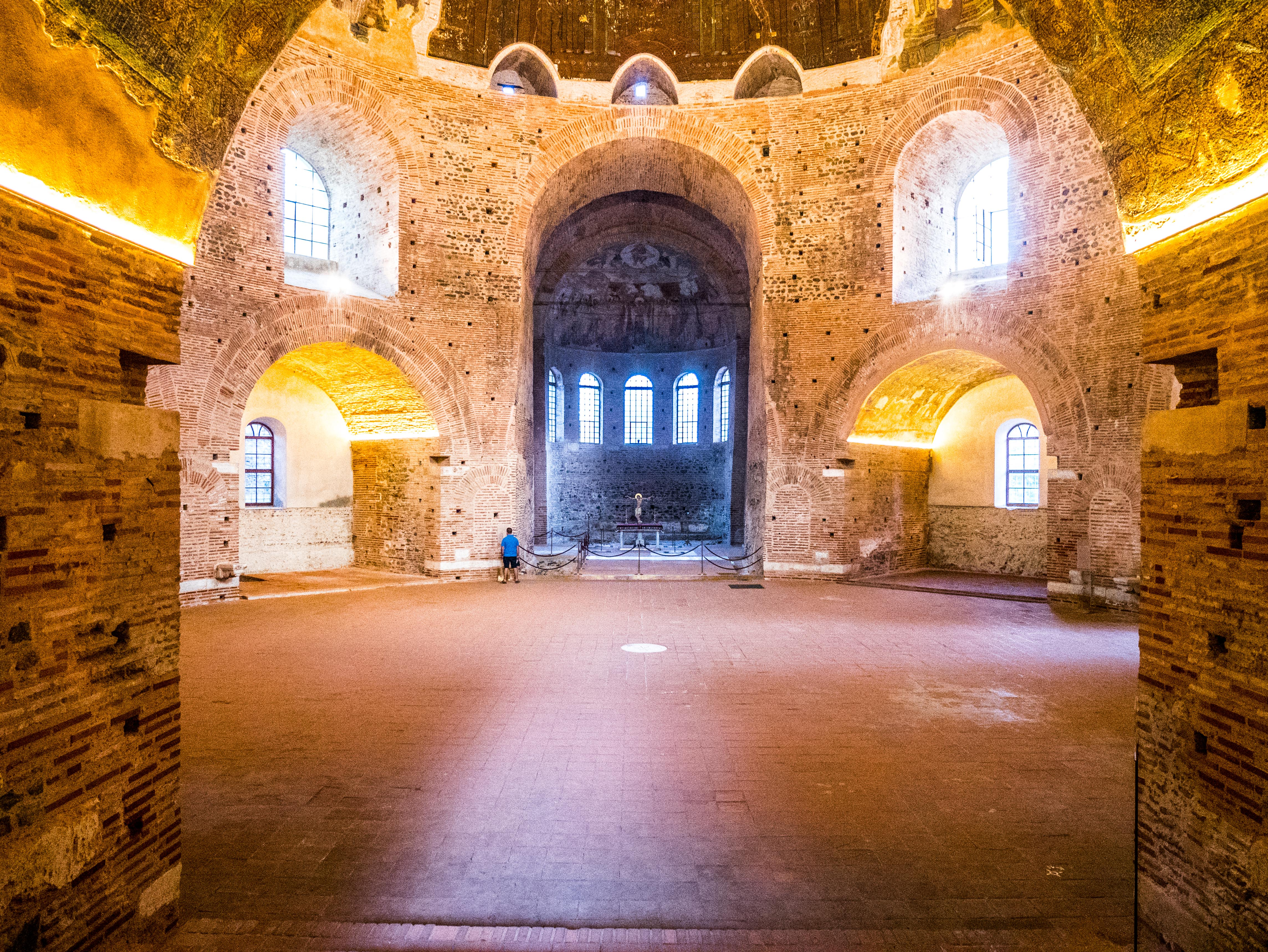 Interior of Saint George Rotunda in Thessaloniki «Ροτόντα»